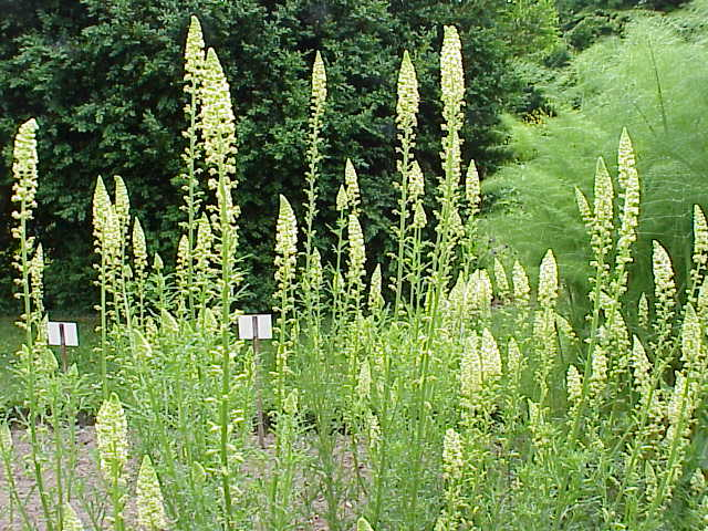 Species: Reseda lutea Family: Resedaceae Image No. 2